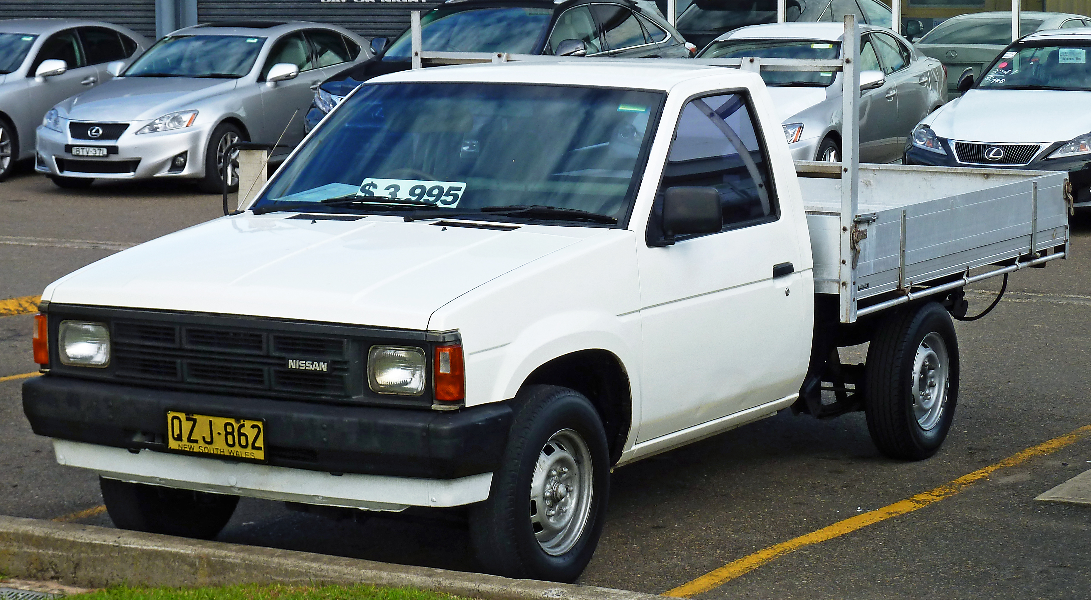 1989 Nissan Navara (D21) DX 2-door cab chassis. Photographed in Kirrawee, New South Wales, Australia.